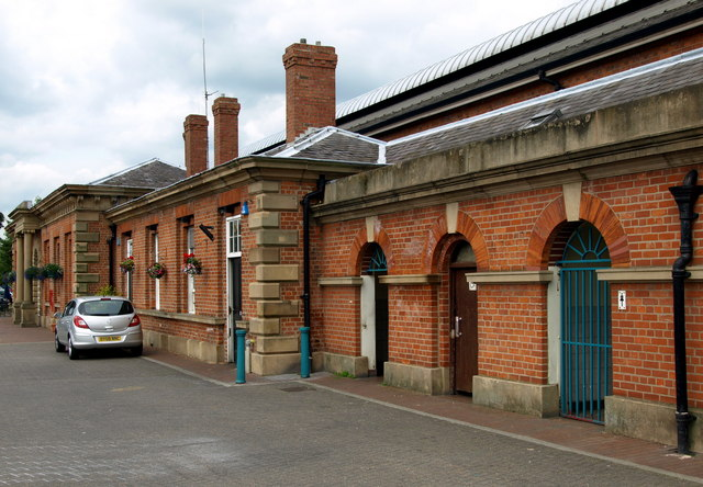 Beverley Railway Station, Beverley, East Riding of Yorkshire, England.